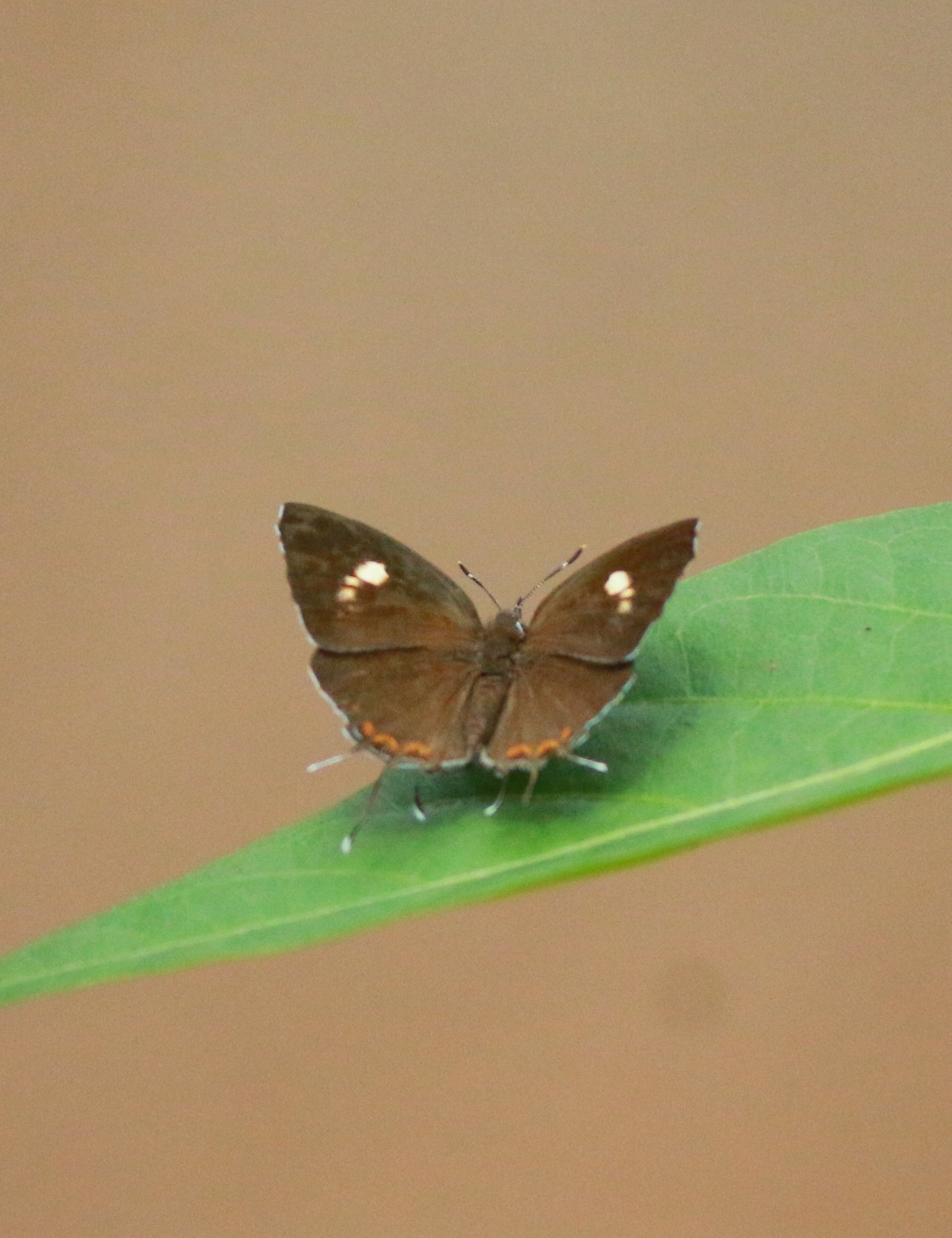 Rathinda amor,Monkey puzzle